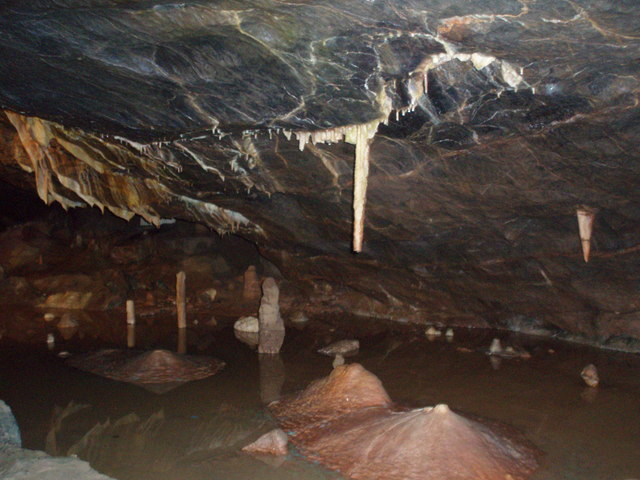 Stalagmites and Stalactites - Gough's cave Some of the most interesting geography in the grid square is below ground. Extensive limestone cave systems formed by the action of water.